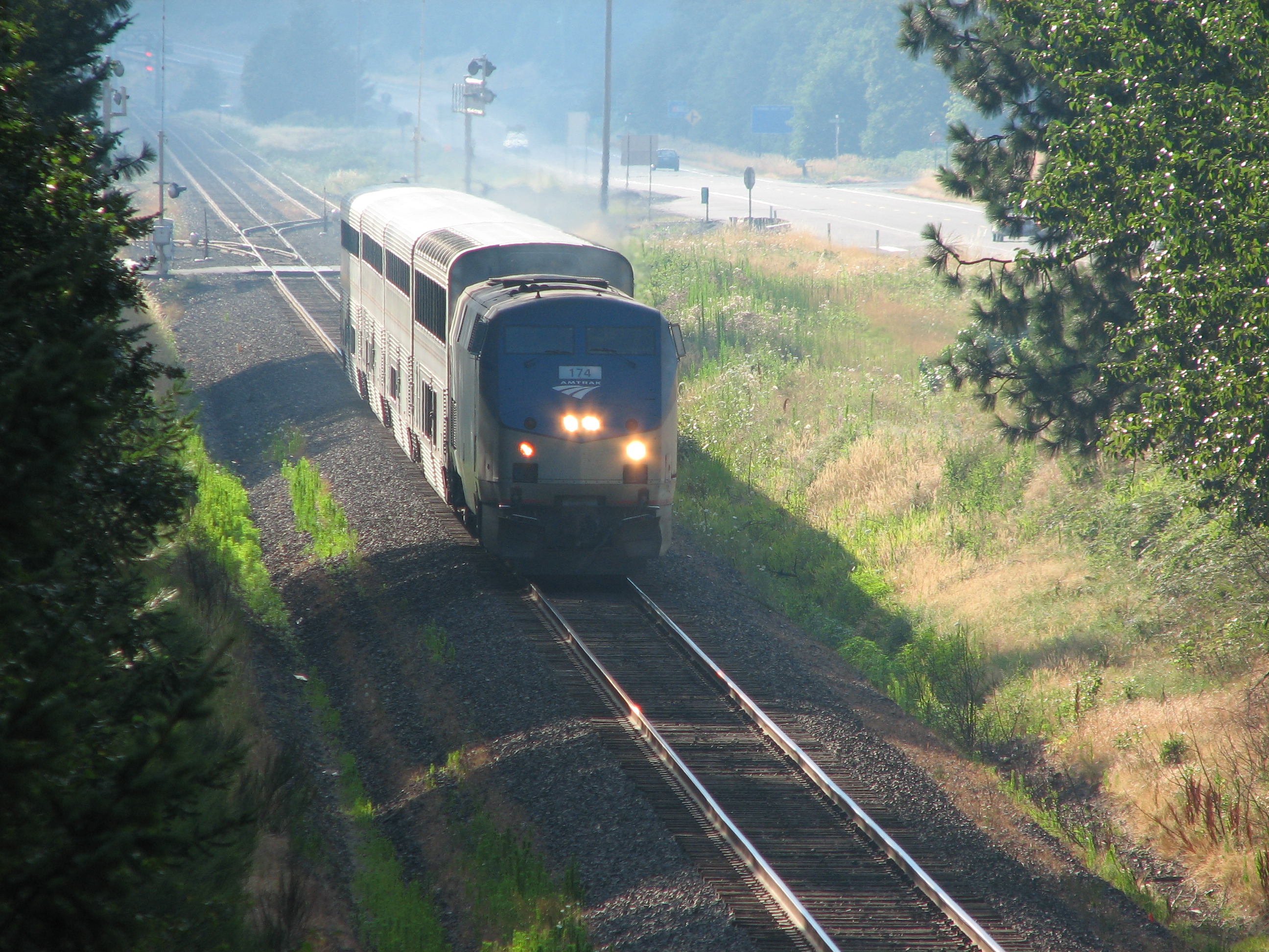 Taken on July 22nd, 2006 at 6:12:52 at the Home Valley Camground in Home Valley, Washington. The location, time and consist make this the Portland section of the Empire Builder en-route to Spokane, Washington.